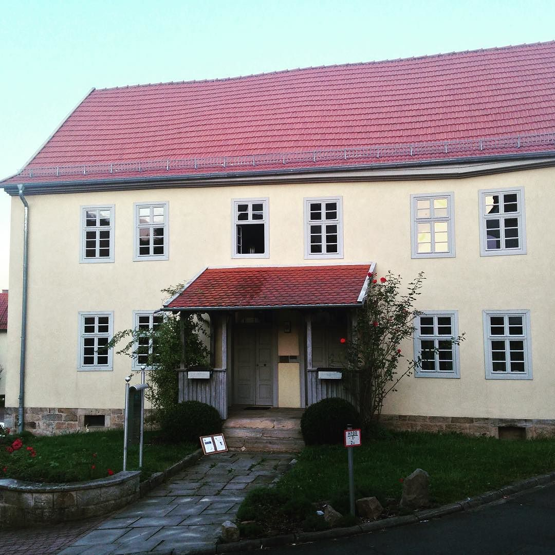 Synagogue of Heubach (Hessia)